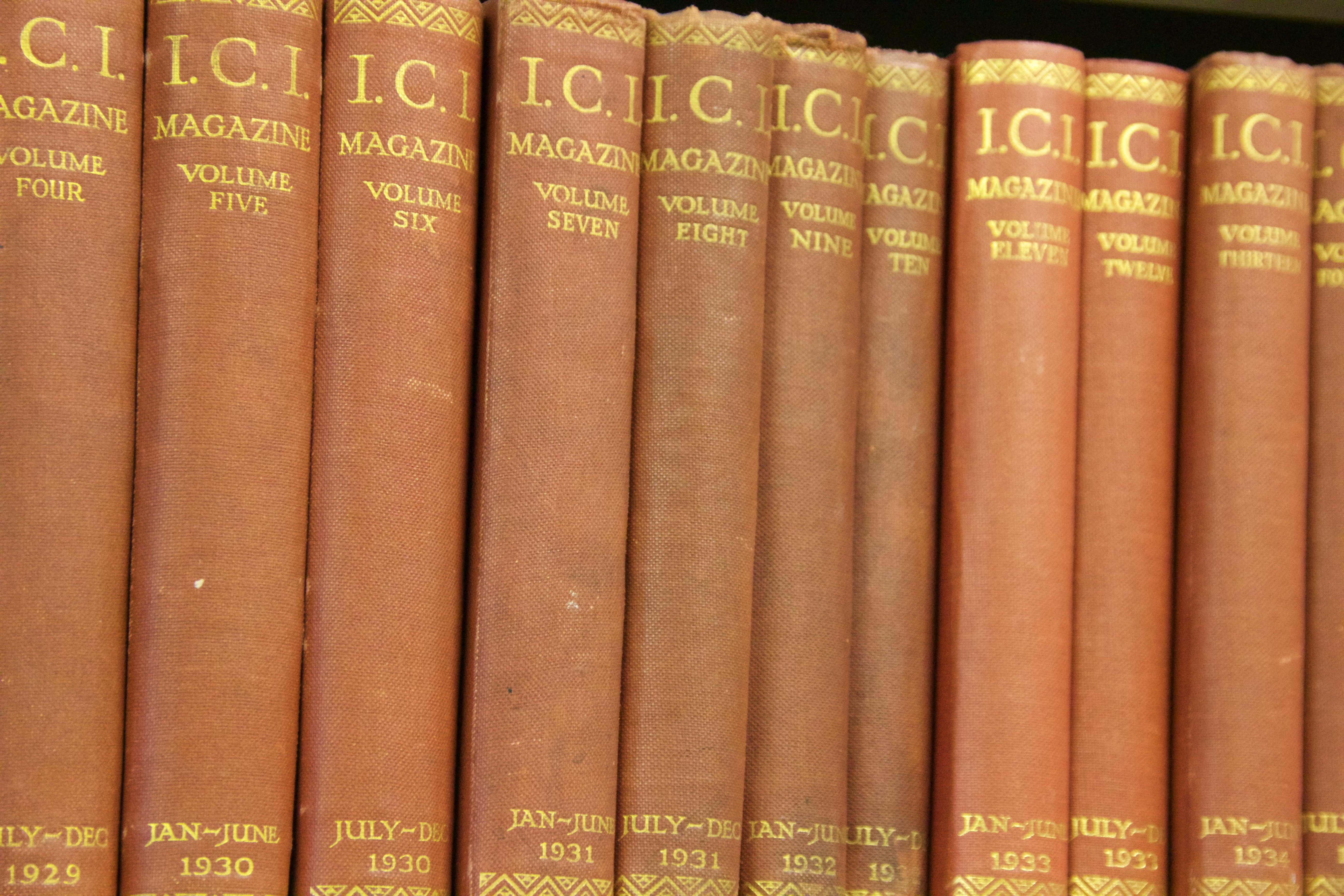 ICI magazine volumes. Wikimedia editathon, Catalyst Science Discovery Centre.